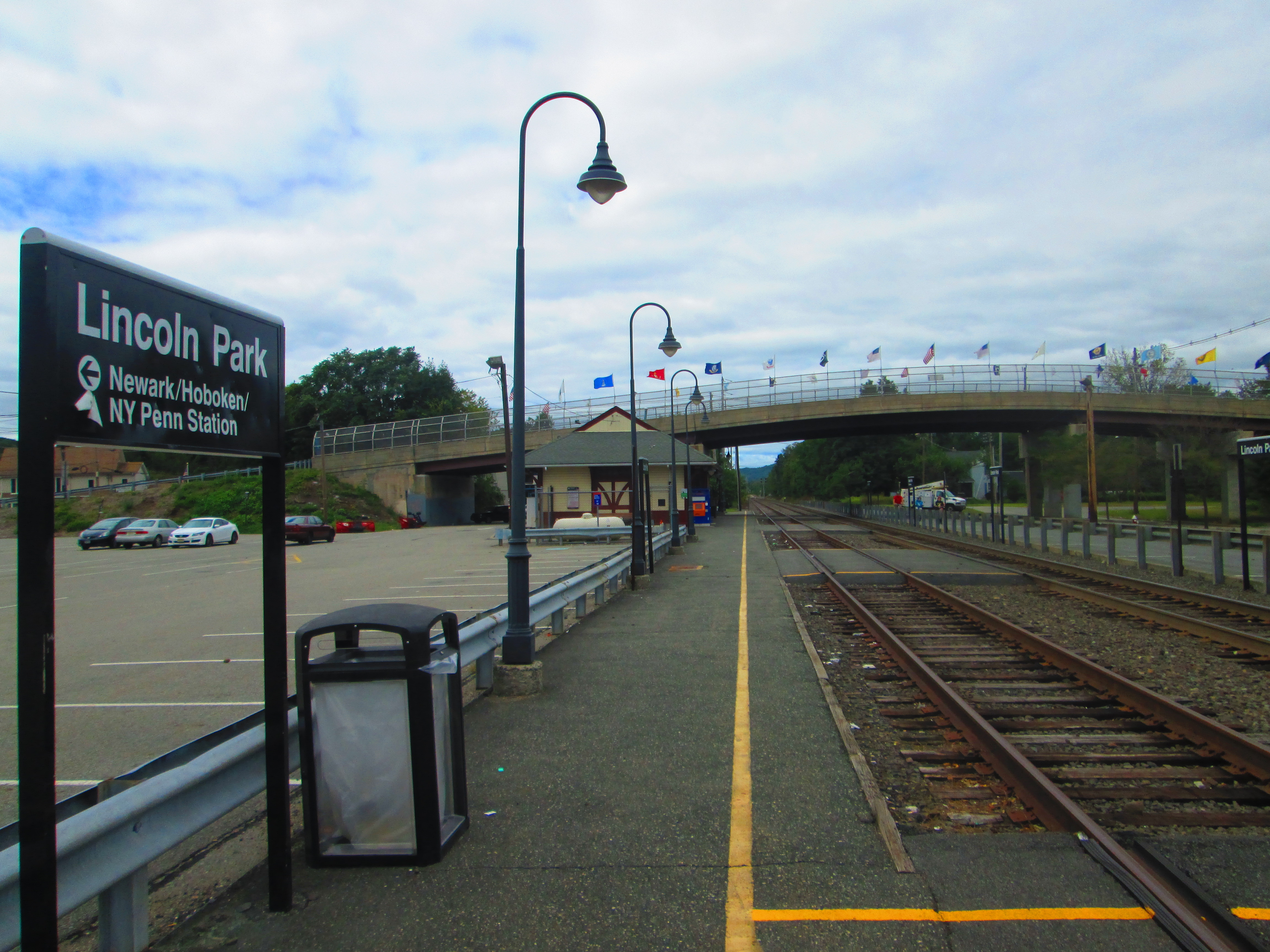 The Lincoln Park New Jersey Transit station in Lincoln Park, New Jersey as seen in September 2013.